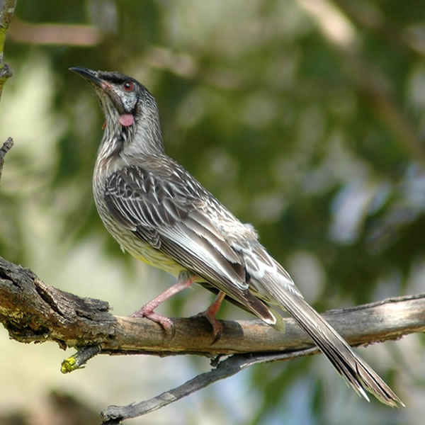 Bird, Red Wattlebird, Anthochaera carunculata